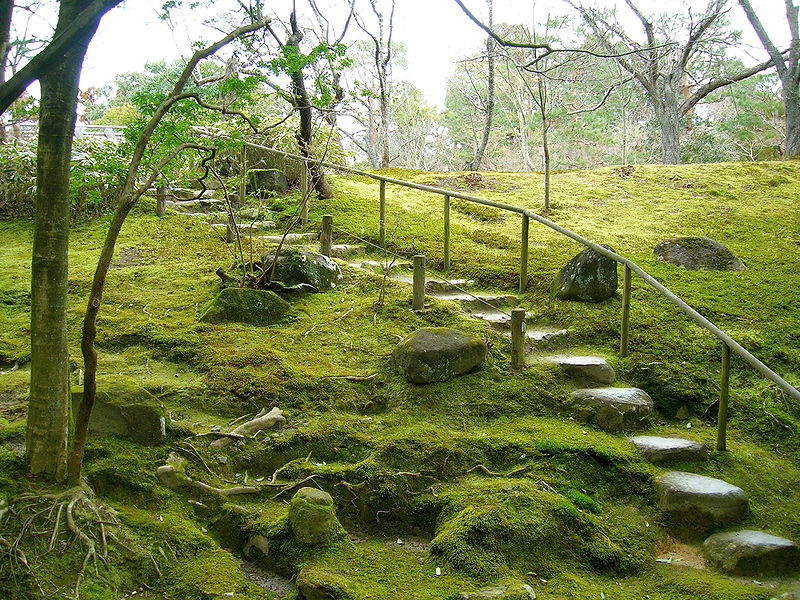 Isuien (依水園) next to Yoshiki-en (吉城園) Isuien Garden in Nara, Japan